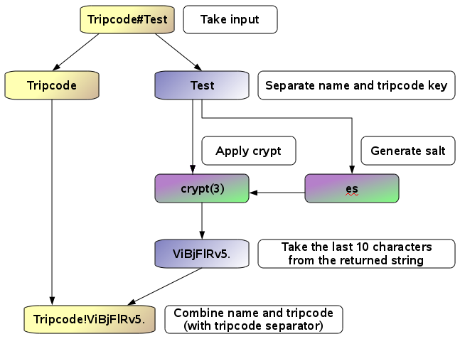 A diagram of the tripcode creation process.